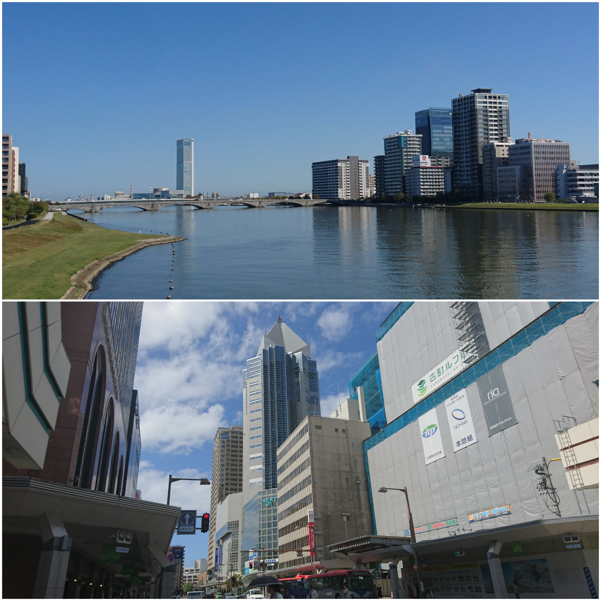 landscape of niigata city